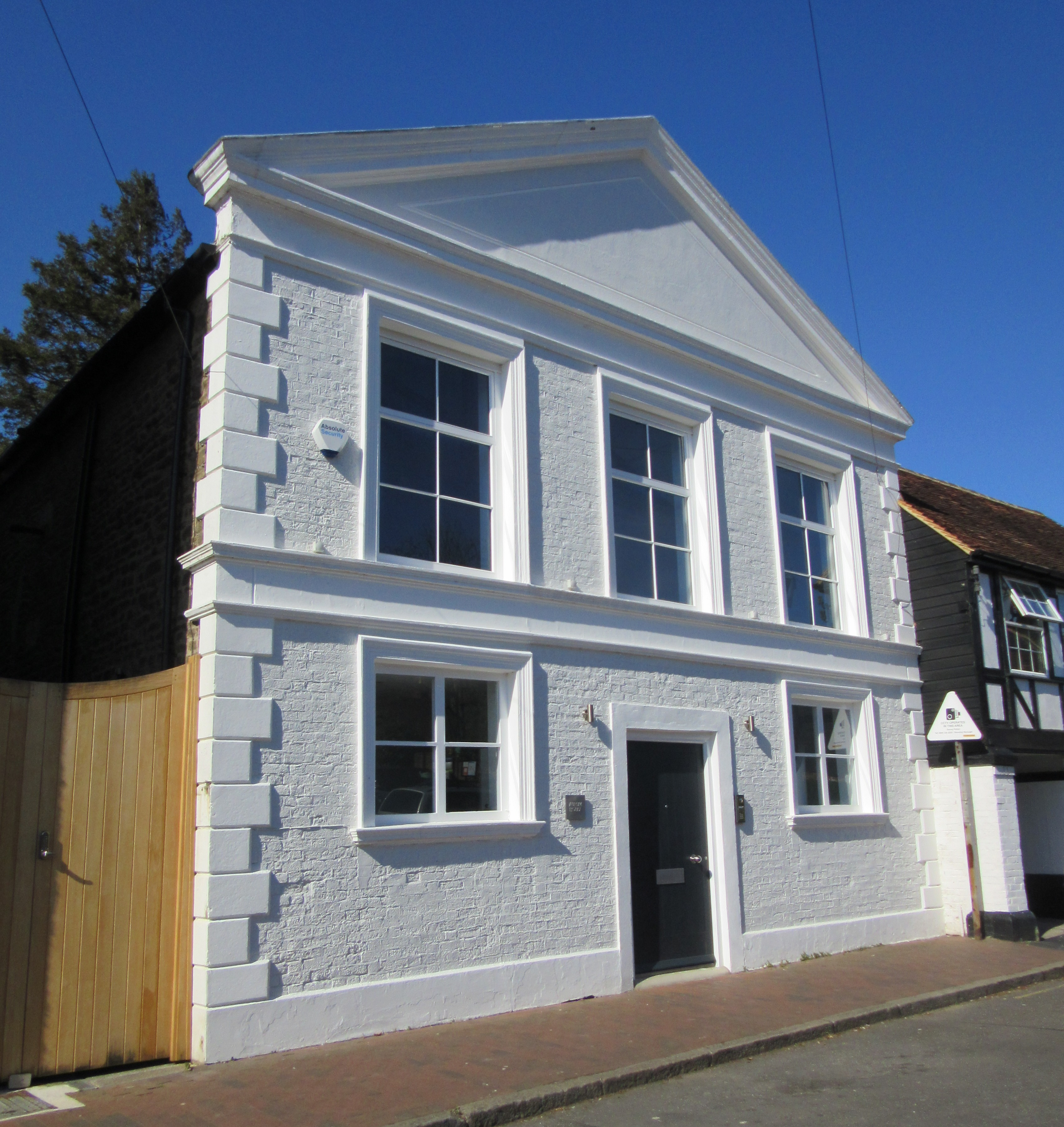 Former Salvation Army Hall, Mint Street, Godalming, Borough of Waverley, Surrey, England. Converted into an office in the early 2010s.